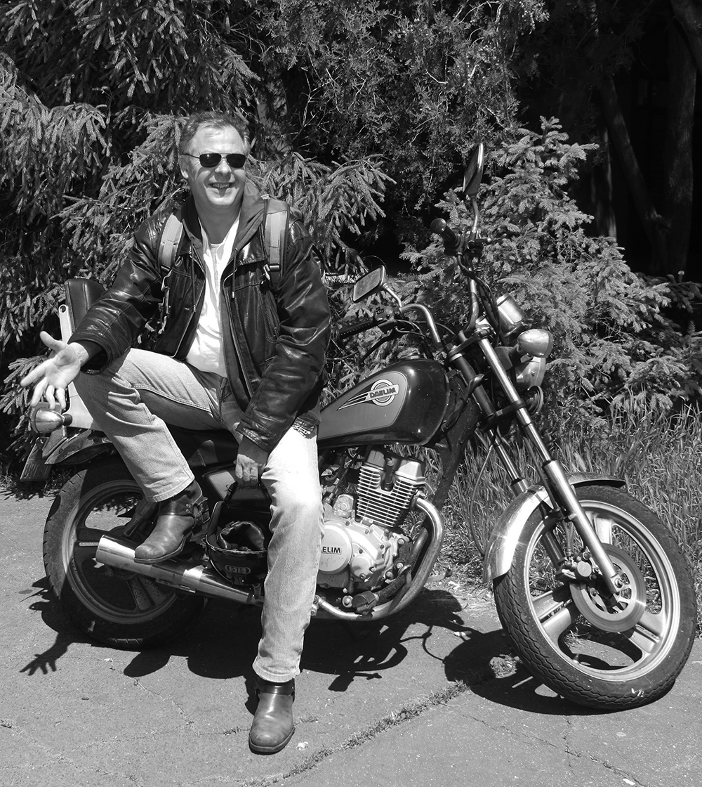 Bosko Savkovic